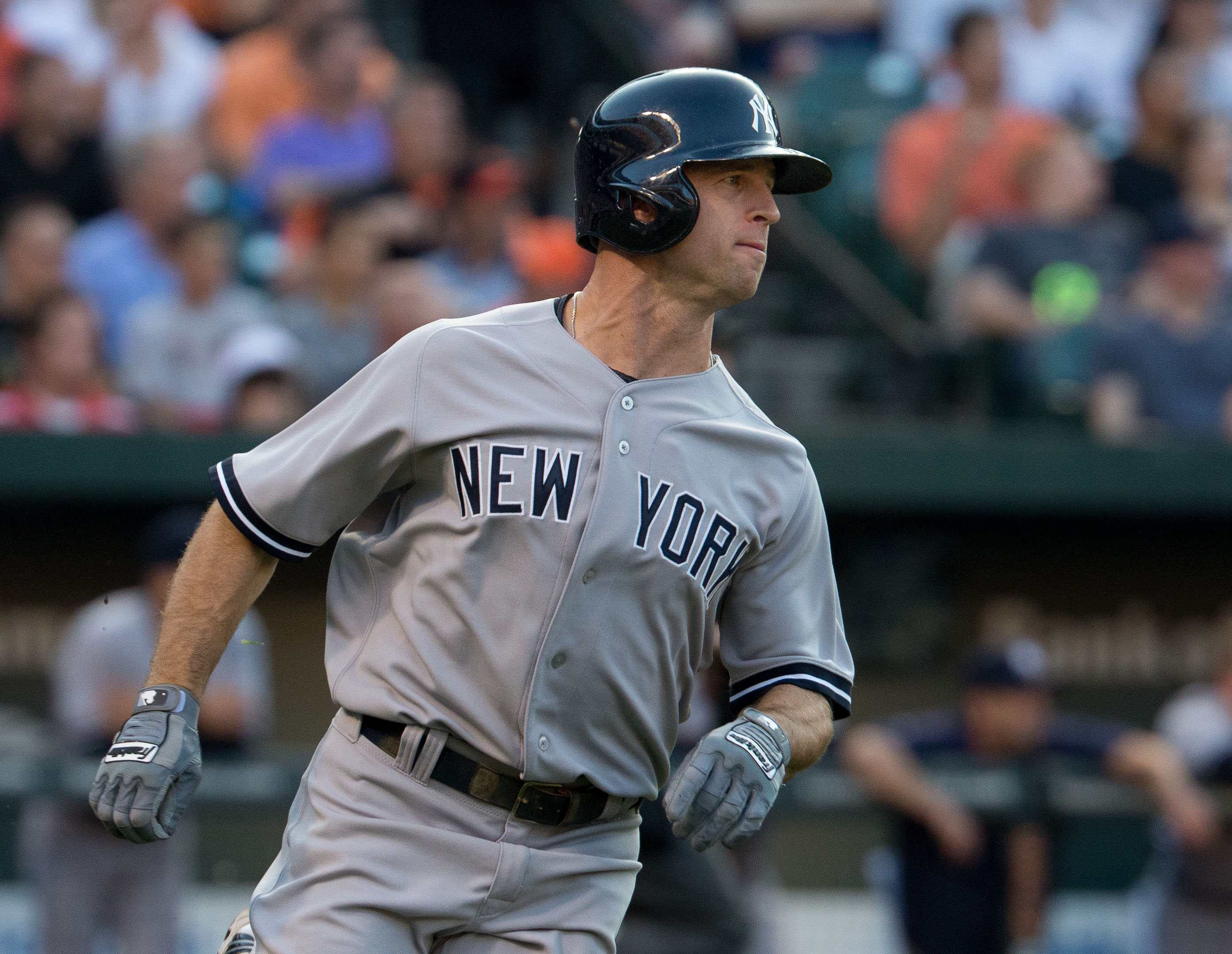 OF, Brett Gardner of the New York Yankees